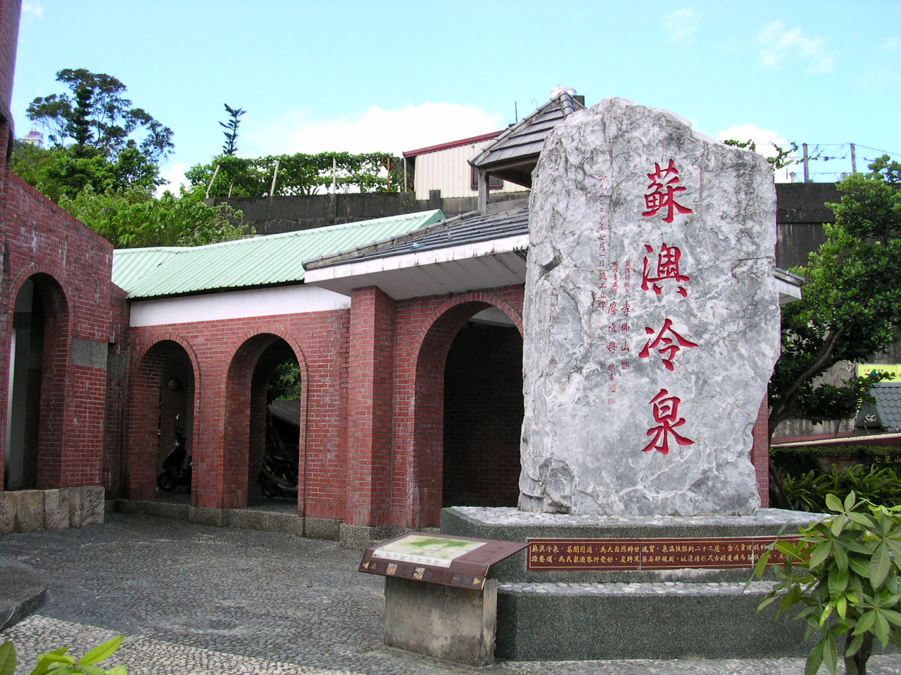 this photo taken by vegafish